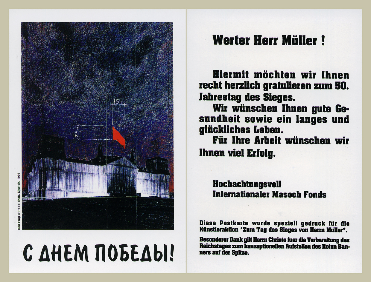 A post card from Masoch Fund's postal action, Berlin, 1995